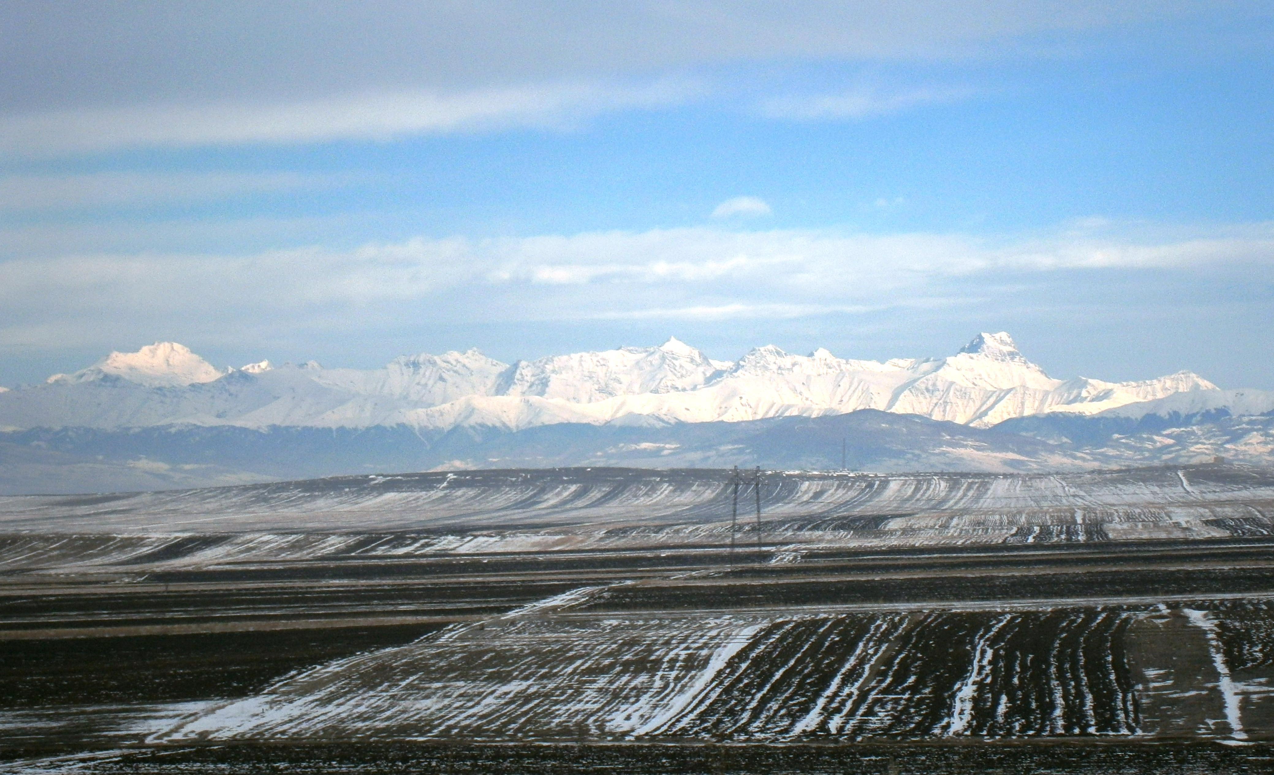 Caucasus Mountains